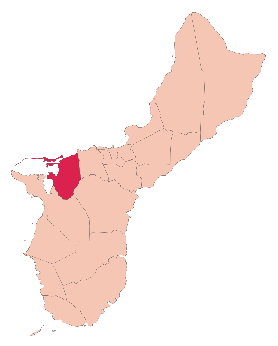 Municipalities of Guam: PitiChamoru: Piti (Guåhån).